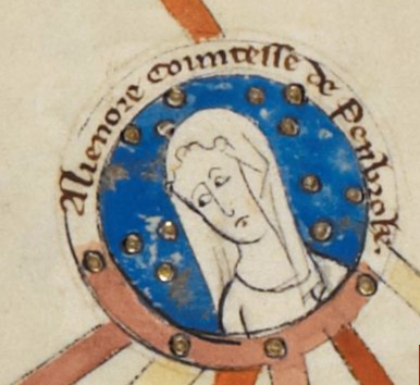 Eleanor of England (1275)